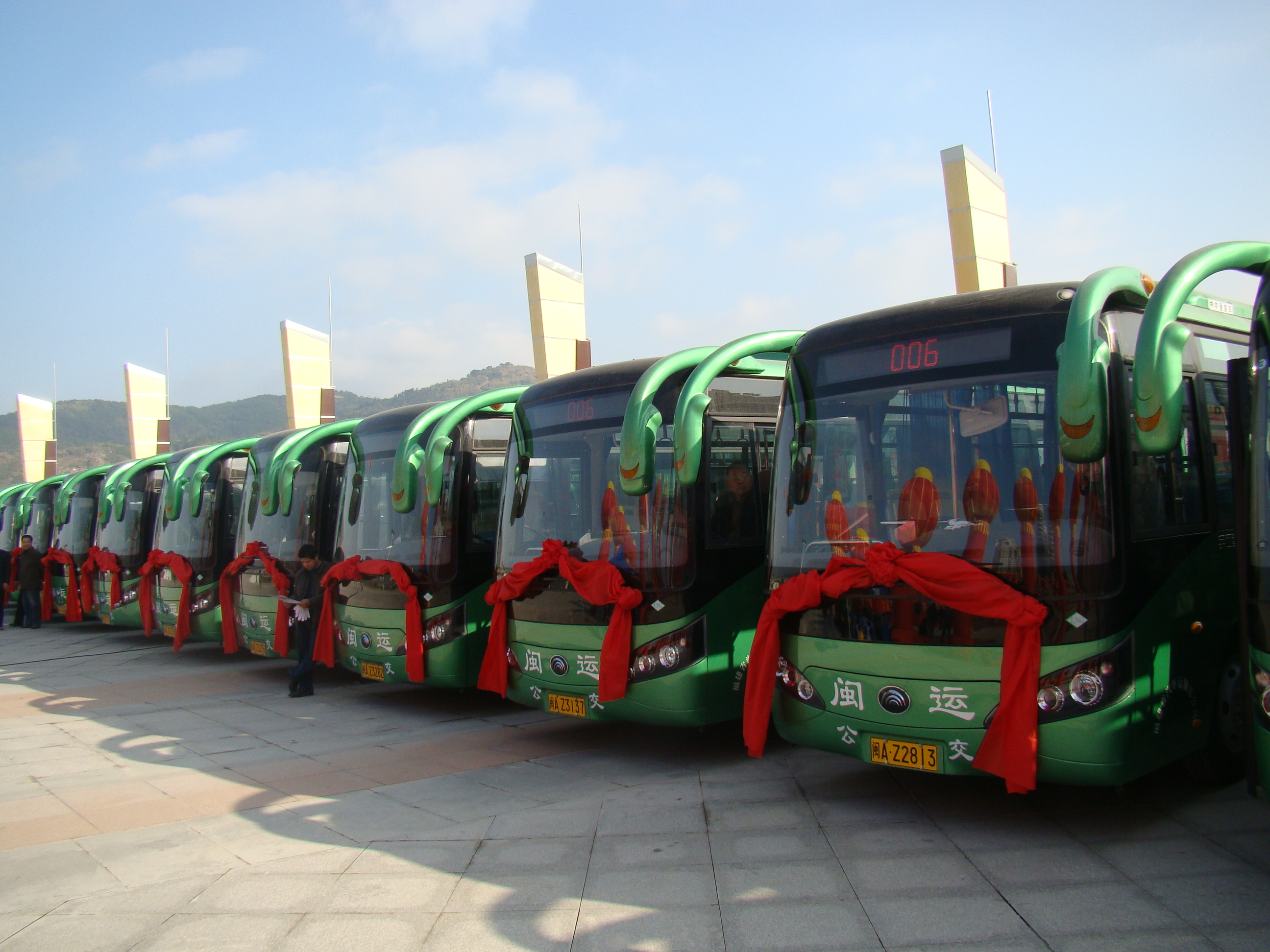 Lianjiang LNG Bus